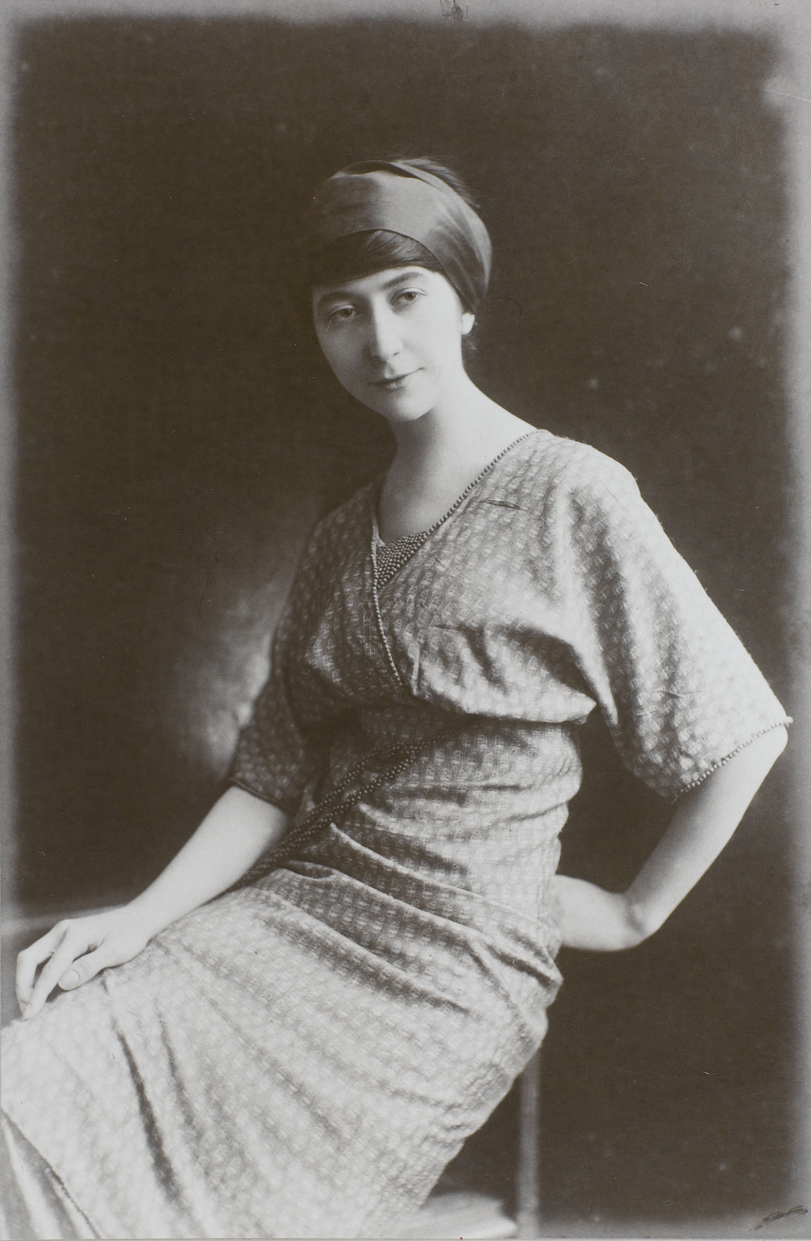 Portrait photograph of Juliette Roche-Gleizes, c.1913, Centre Pompidou, Musée national d'art moderne, Bibliothèque Kandinsky (fonds Gleizes)